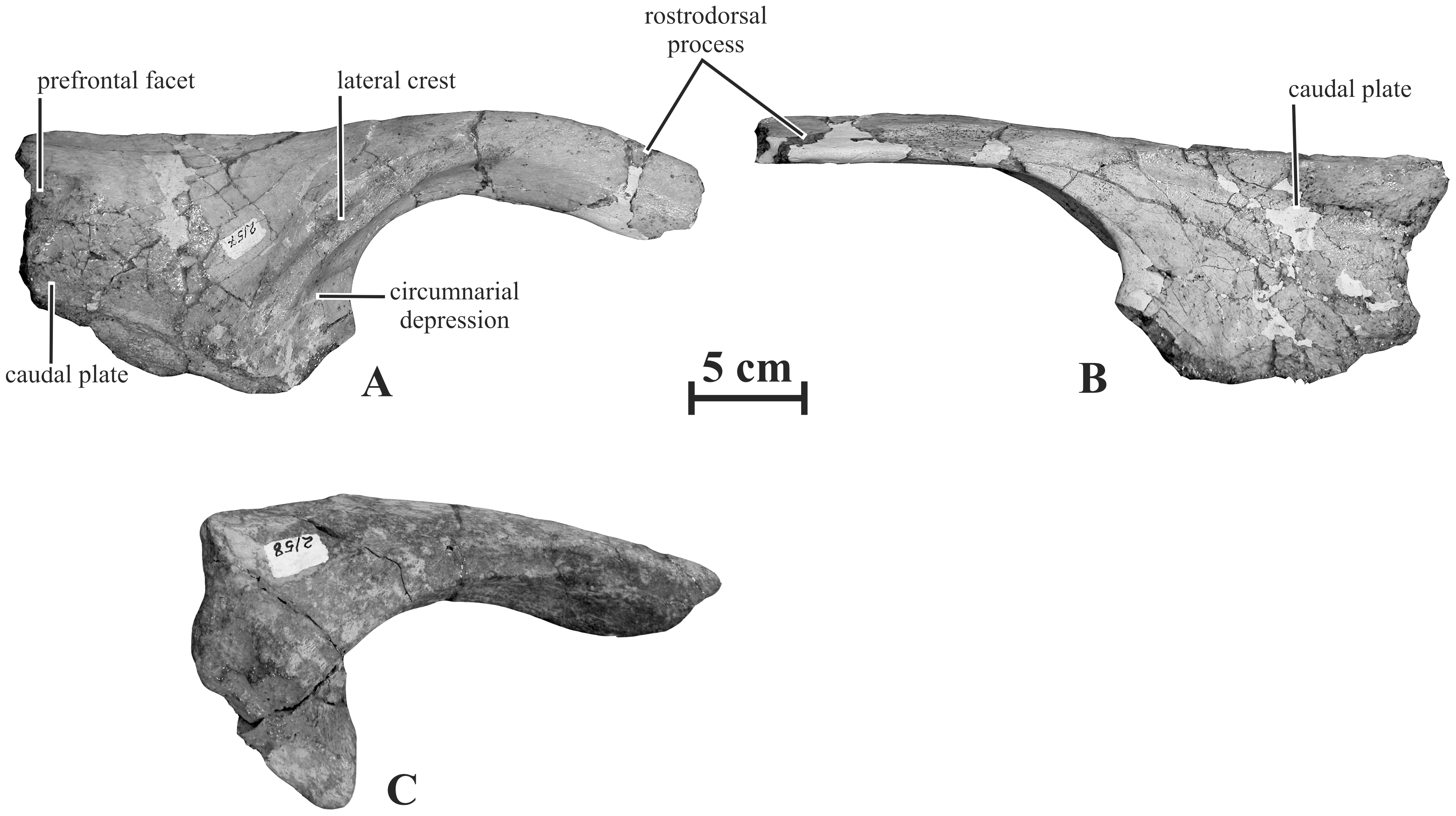 Right nasals of Kundurosaurus nagornyi gen. et sp. nov. AENM 2/57 in lateral (A) and medial (B) views. AENM 2/58 in lateral view (C).